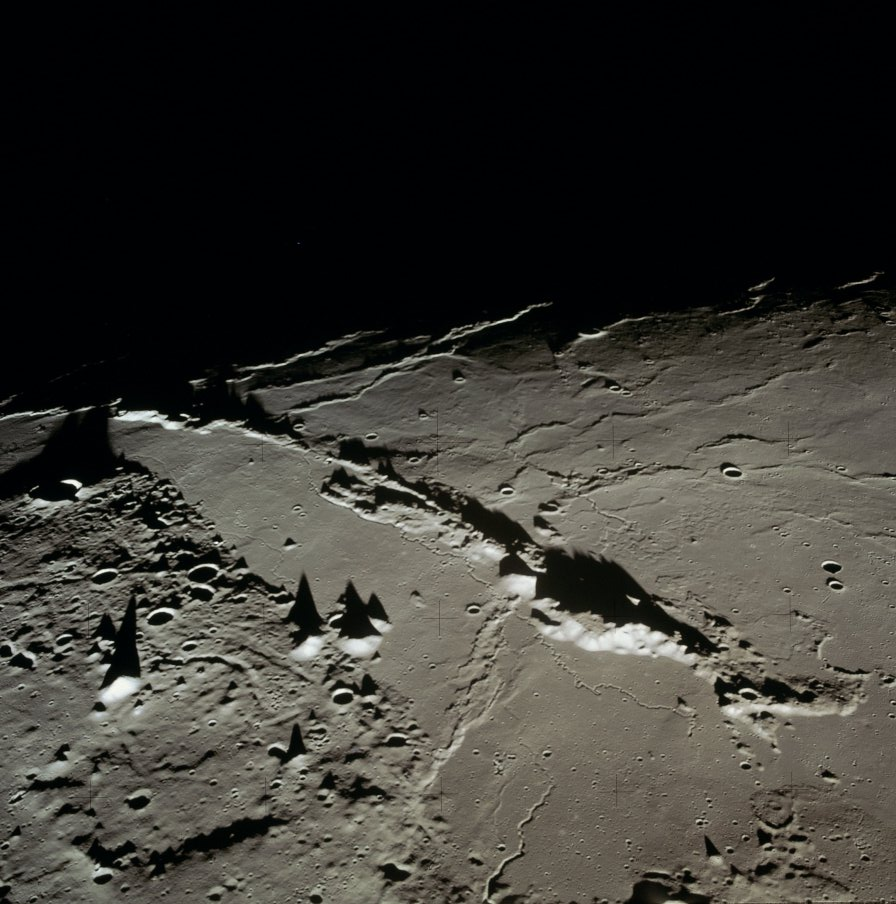 Apollo 15 image: Montes Agricola is the mountain chain running diagonally across the photo